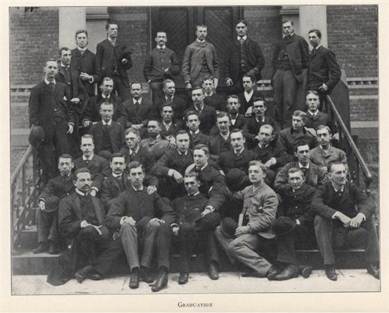 Fiftieth reunion class of 1881 Scheffield Scientific School Yale University. Manuscripts & Archives, Yale University